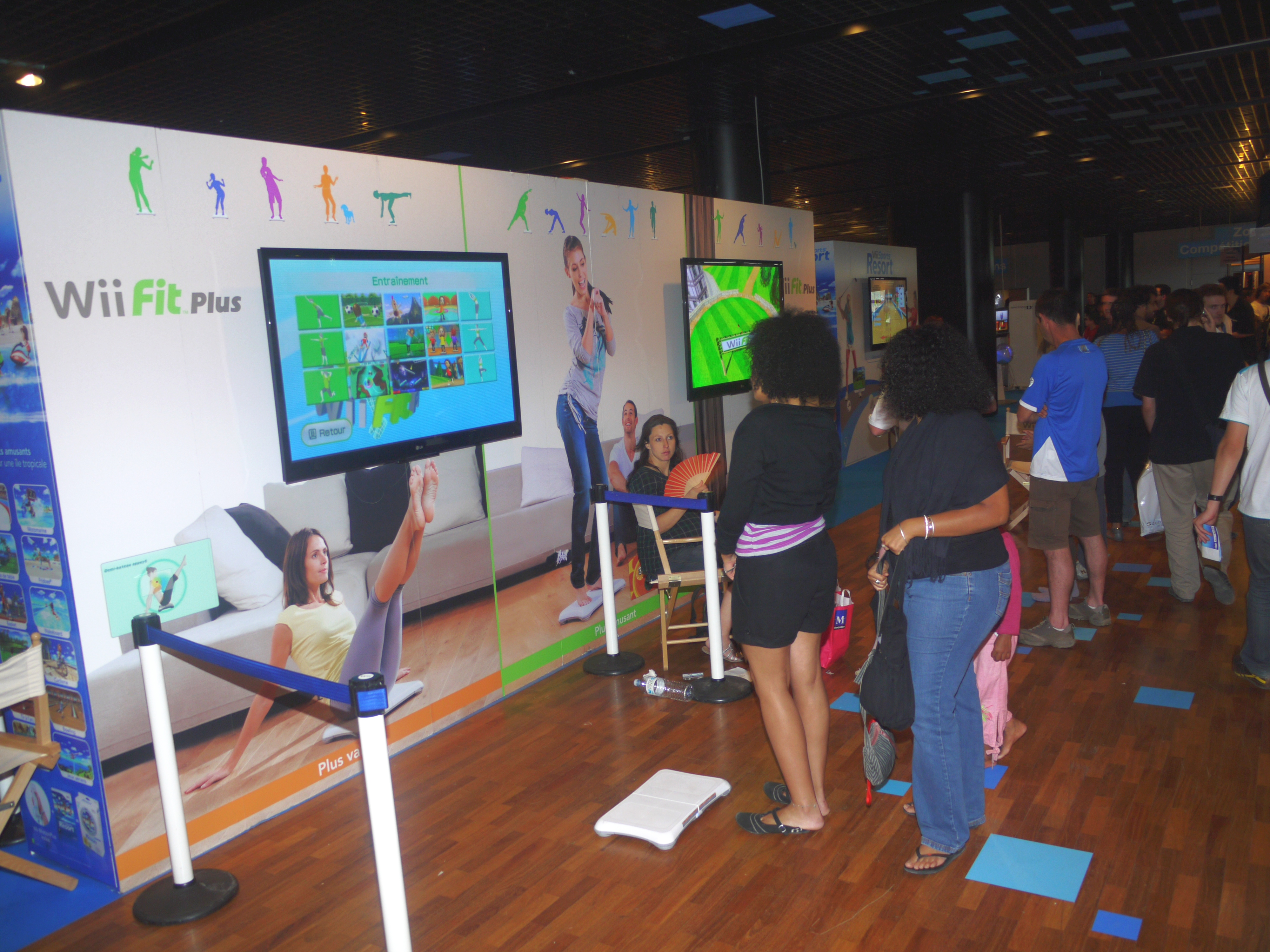 Montpellier in Game Festival 2010